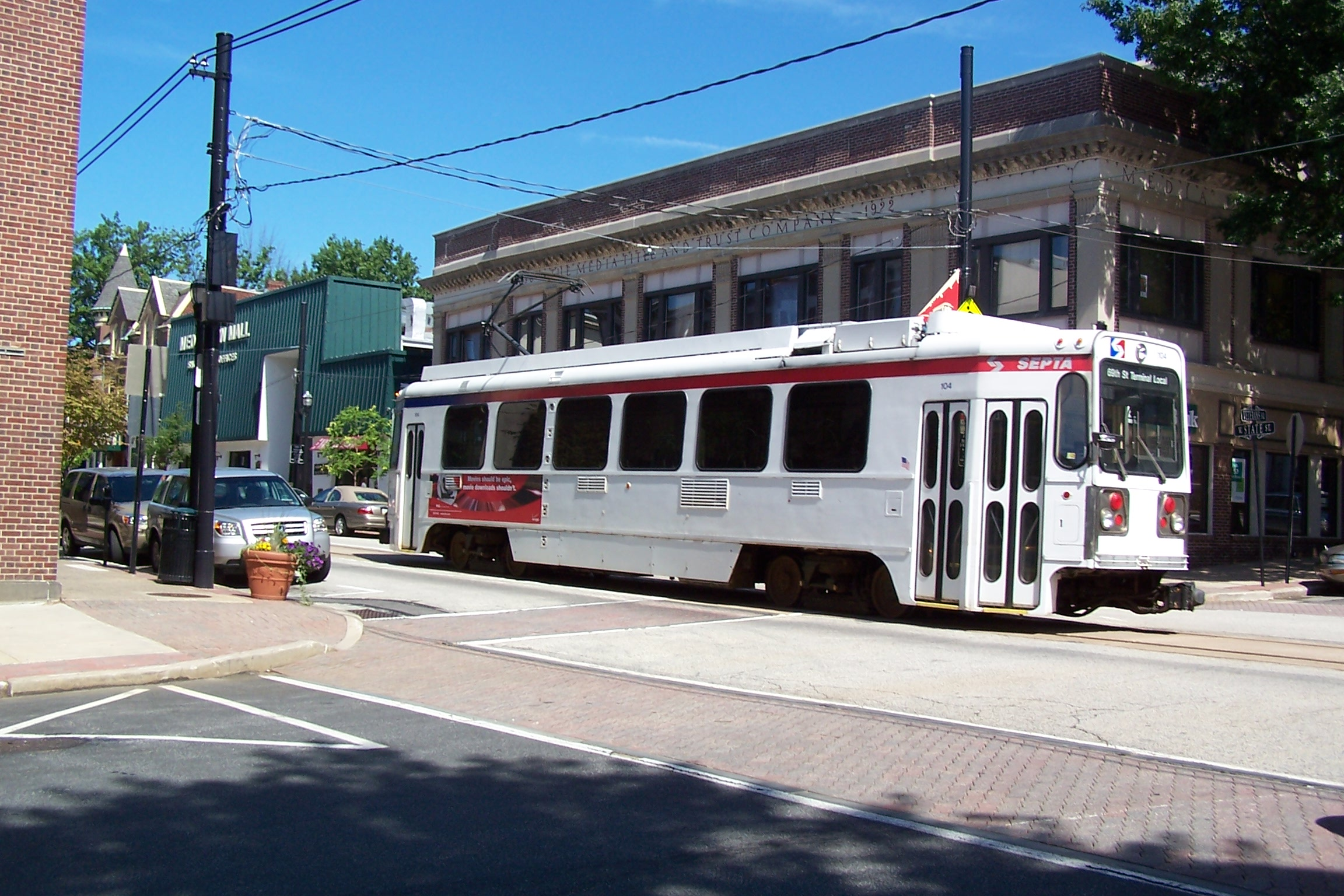 SEPTA route 101 runs from Media, PA to the 69th Street Terminal in west Philadelphia. Street running is the norm in downtown Media near the end of the line.